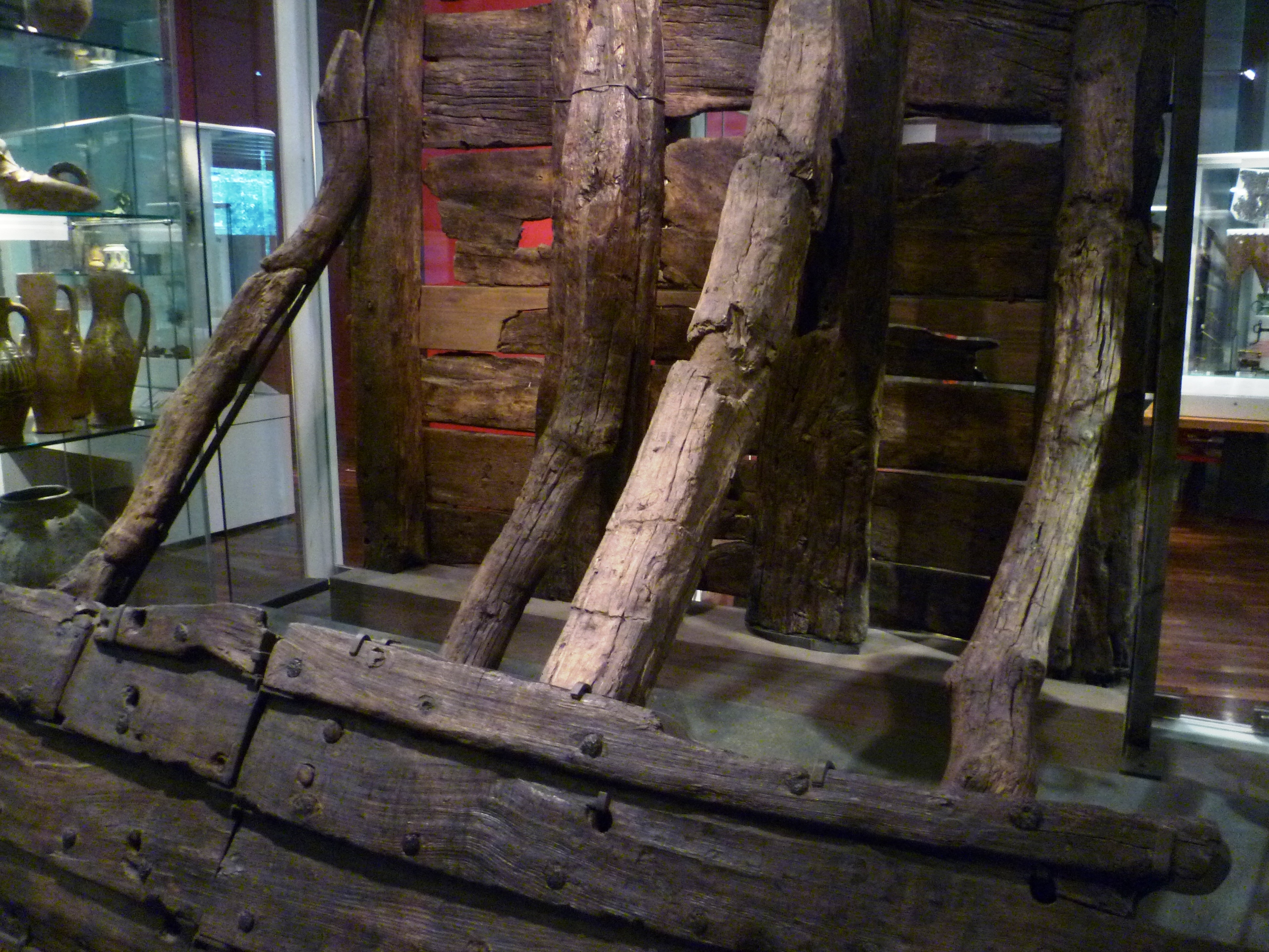 Part of a retaining wall of oak timbers from the Thames riverbank at Billingsgate, excavated in 1982. The diagonal braces extended into the river to support the vertical posts and horizontal planks. An exhibit in the Museum of London.